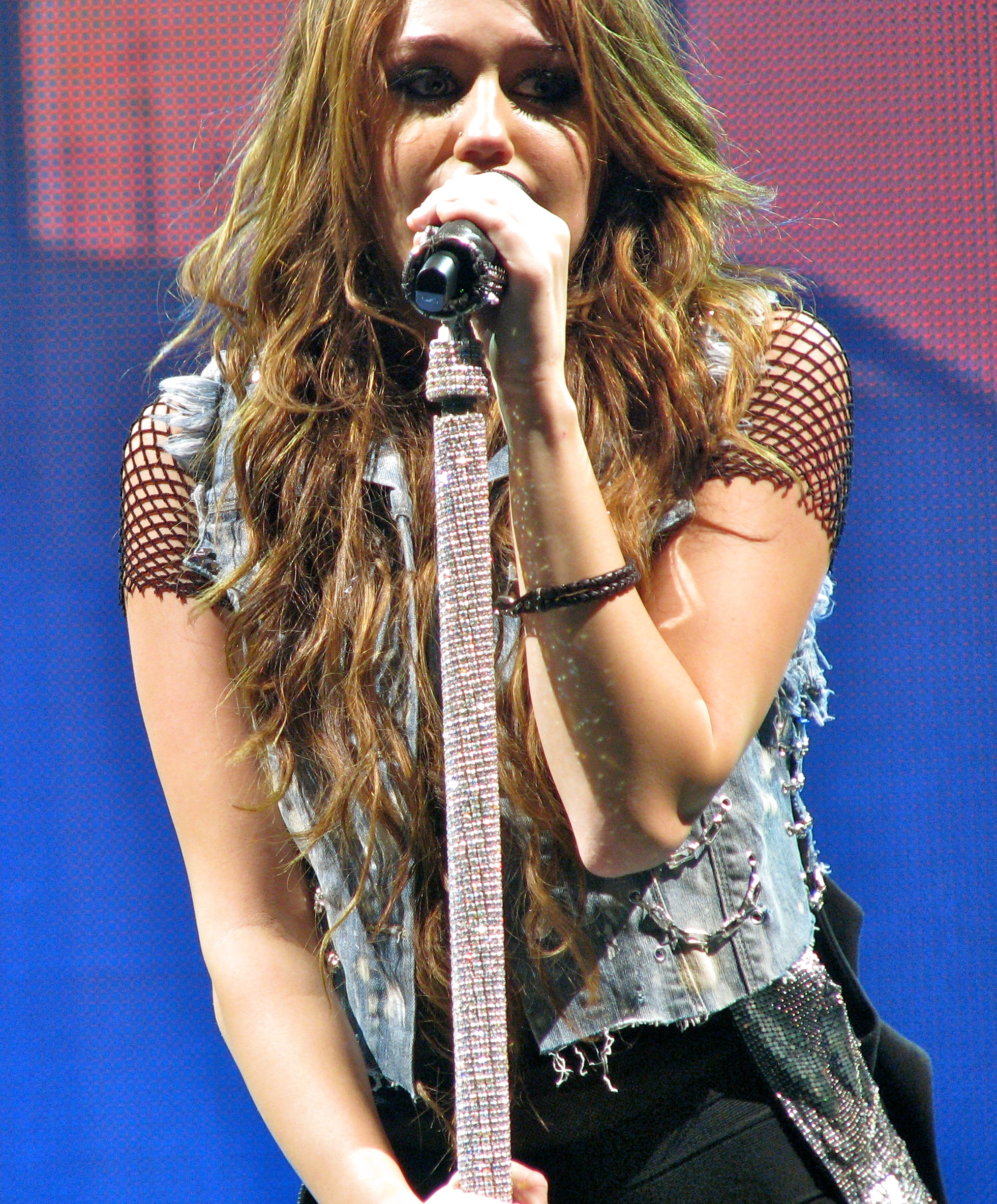 A teen singing.